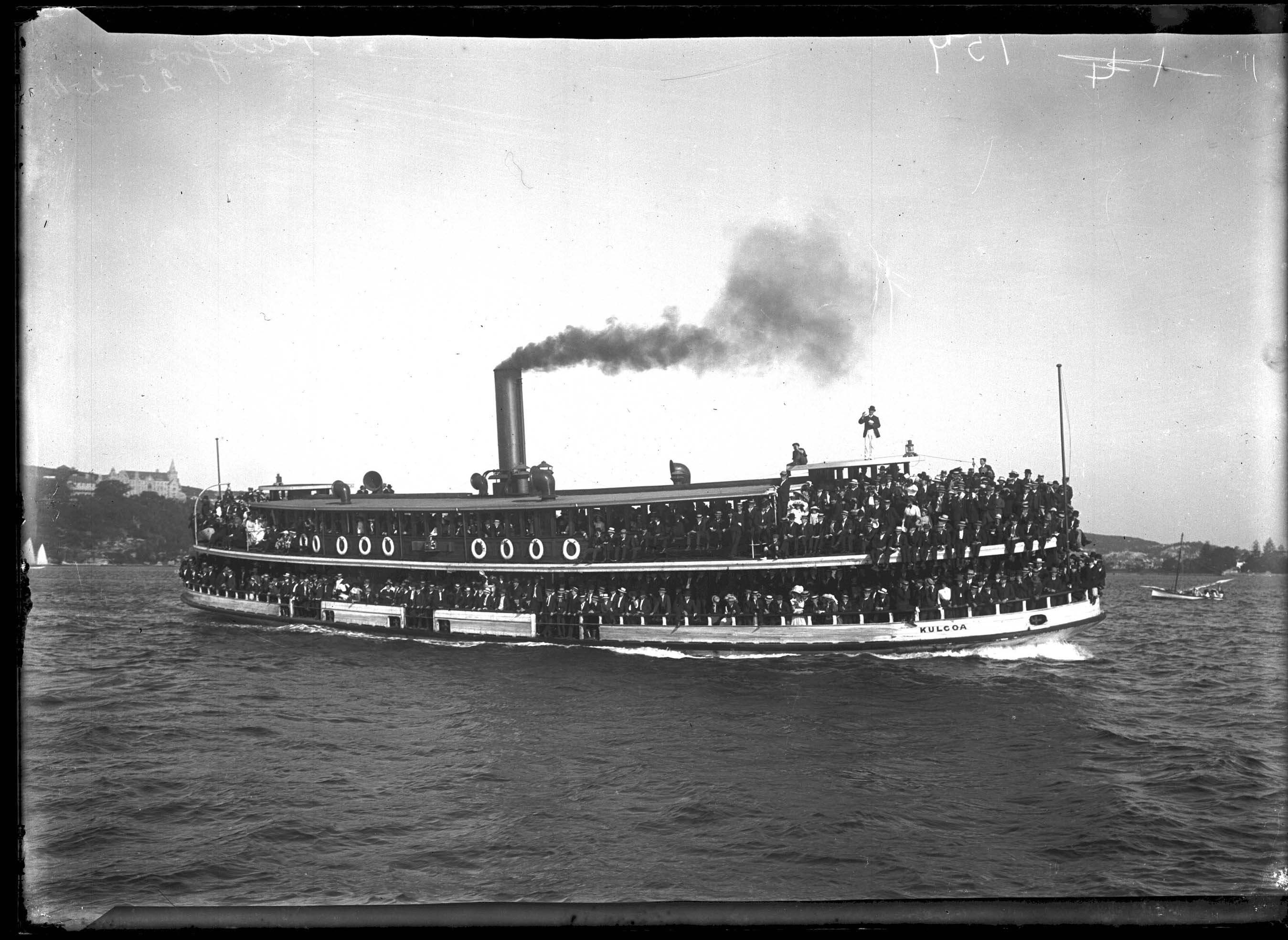 This photo is part of the Australian National Maritime Museum’s William J Hall collection. The Hall collection provides an important pictorial record of recreational boating in Sydney Harbour, from the 1890s to the 1930s – from large racing and cruising yachts, to the many and varied skiffs jostling on the harbour, to the new phenomenon of motor boating in the early twentieth century. The collection also includes studio portraits and images of the many spectators and crowds who followed the sailing races. The Australian National Maritime Museum undertakes research and accepts public comments that enhance the information we hold about images in our collection. If you can identify a person, vessel or landmark, write the details in the Comments box below. Thank you for helping caption this important historical image. Object number 00002090